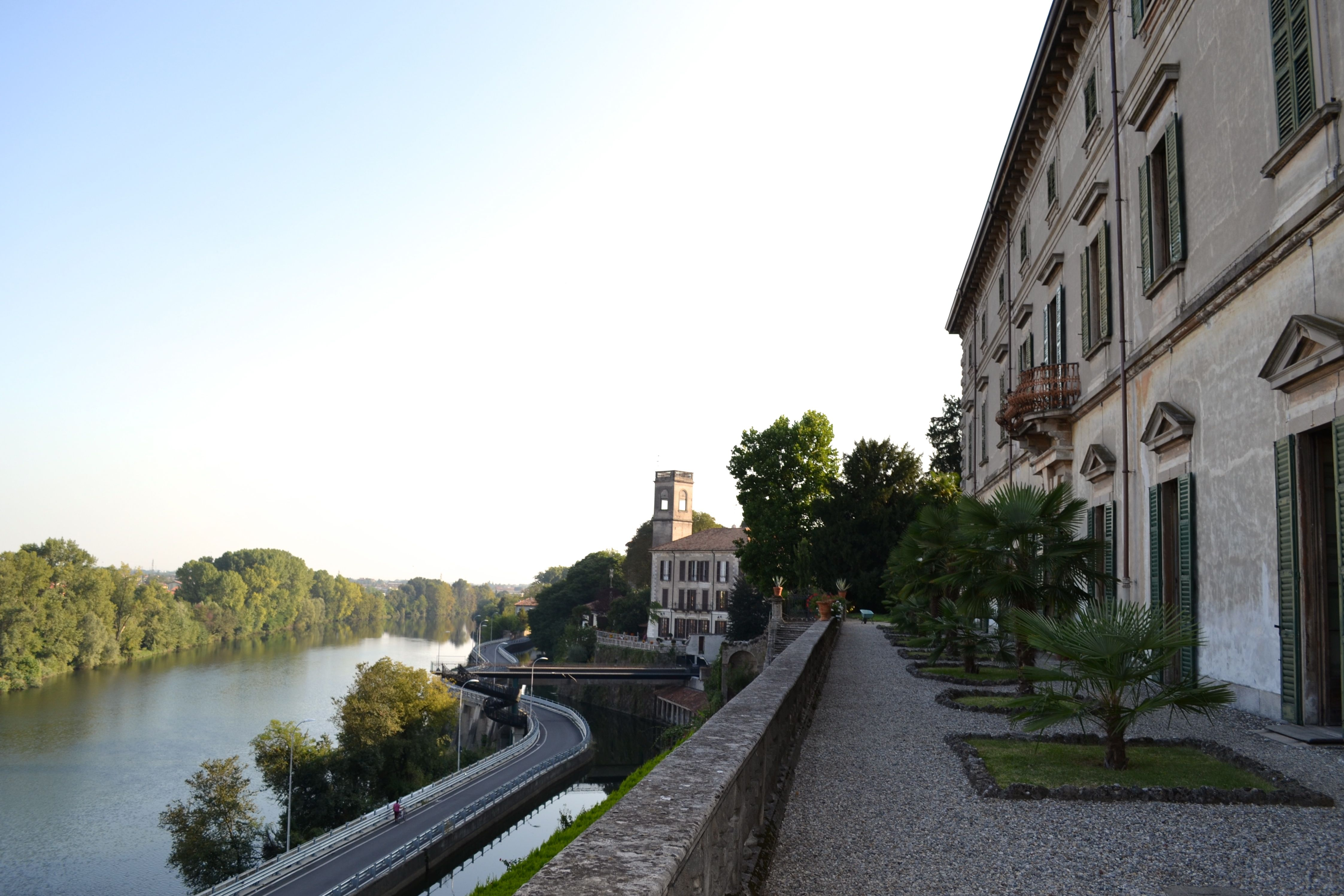 Sight from the park